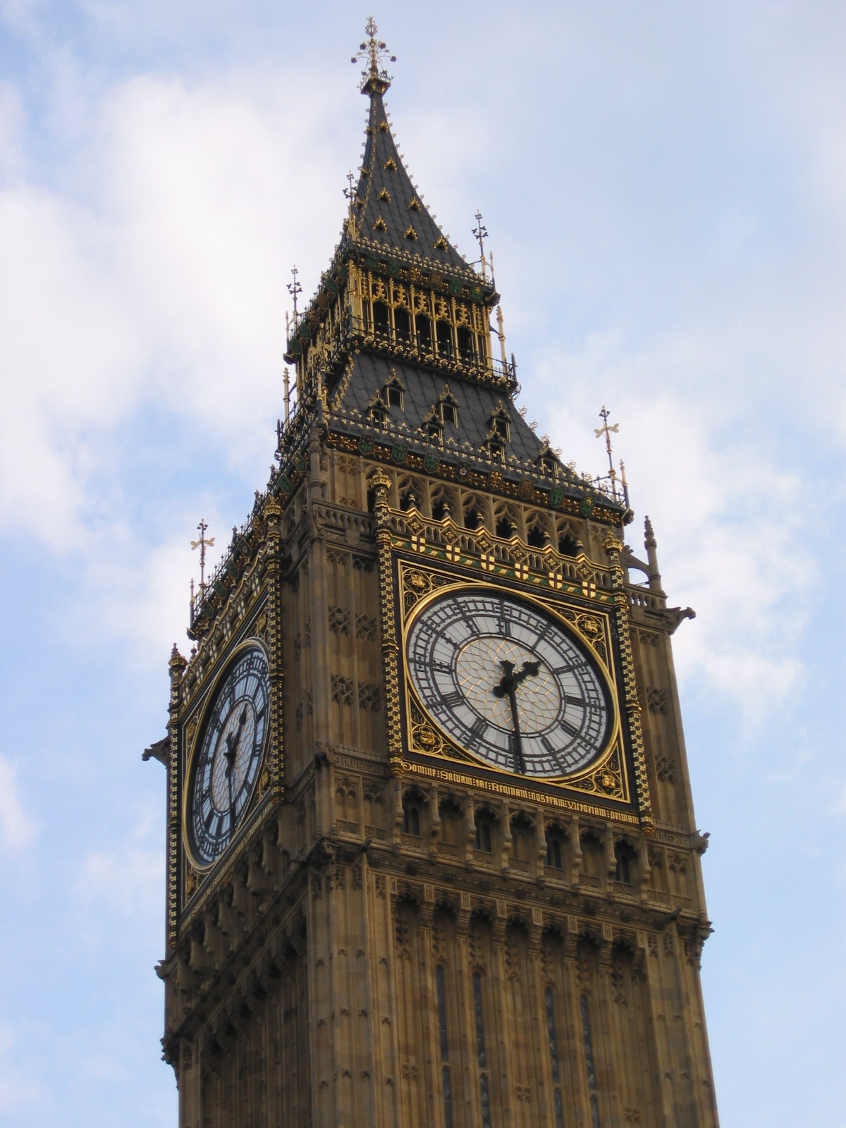 London Clocktower November 2003